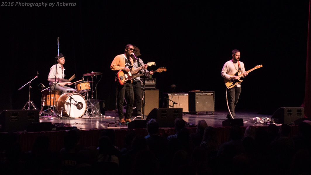 Curtis Harding at the Adler Theater, Davenport, IA for Daytrotter Downs and the Daytrotter 10th Anniversary Celebration 2/18/16